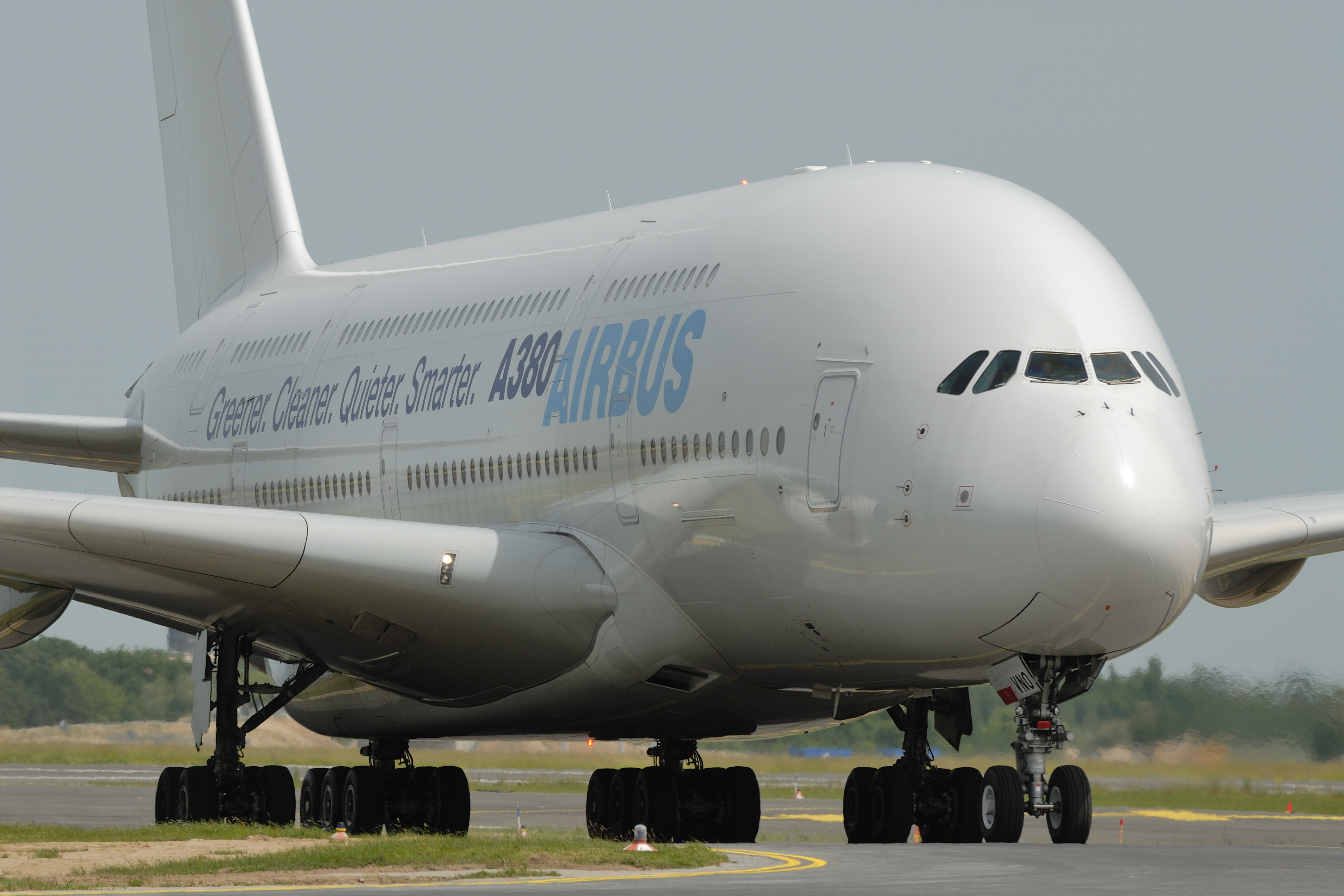 ILA 2008: body of an Airbus A380 which taxis after landing.